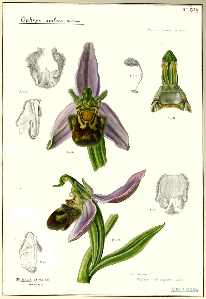 Plate depicting Ophrys apifera Huds. by Hélène Durand (1883-1934)